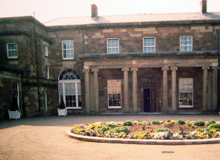 Colour-corrected version of :Image:Hillsboroughclose.JPG. Corrections by me to PD image.